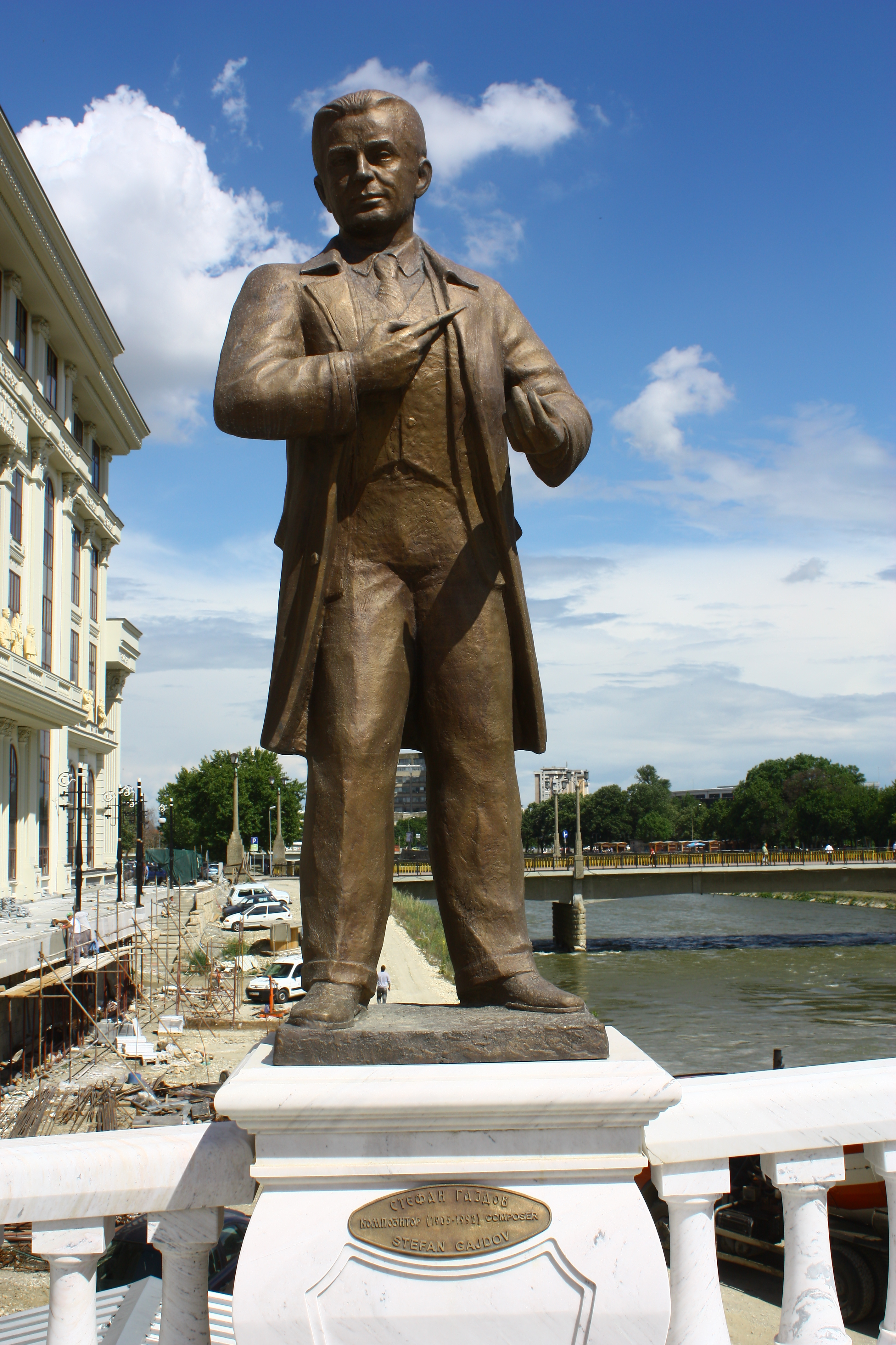 Sculpture od the Bridge of Arts in Skopje, Macedonia This image is uploaded as part of the picture contest Wiki Loves Cultural Heritage in Macedonia 2013. English | македонски | +/−